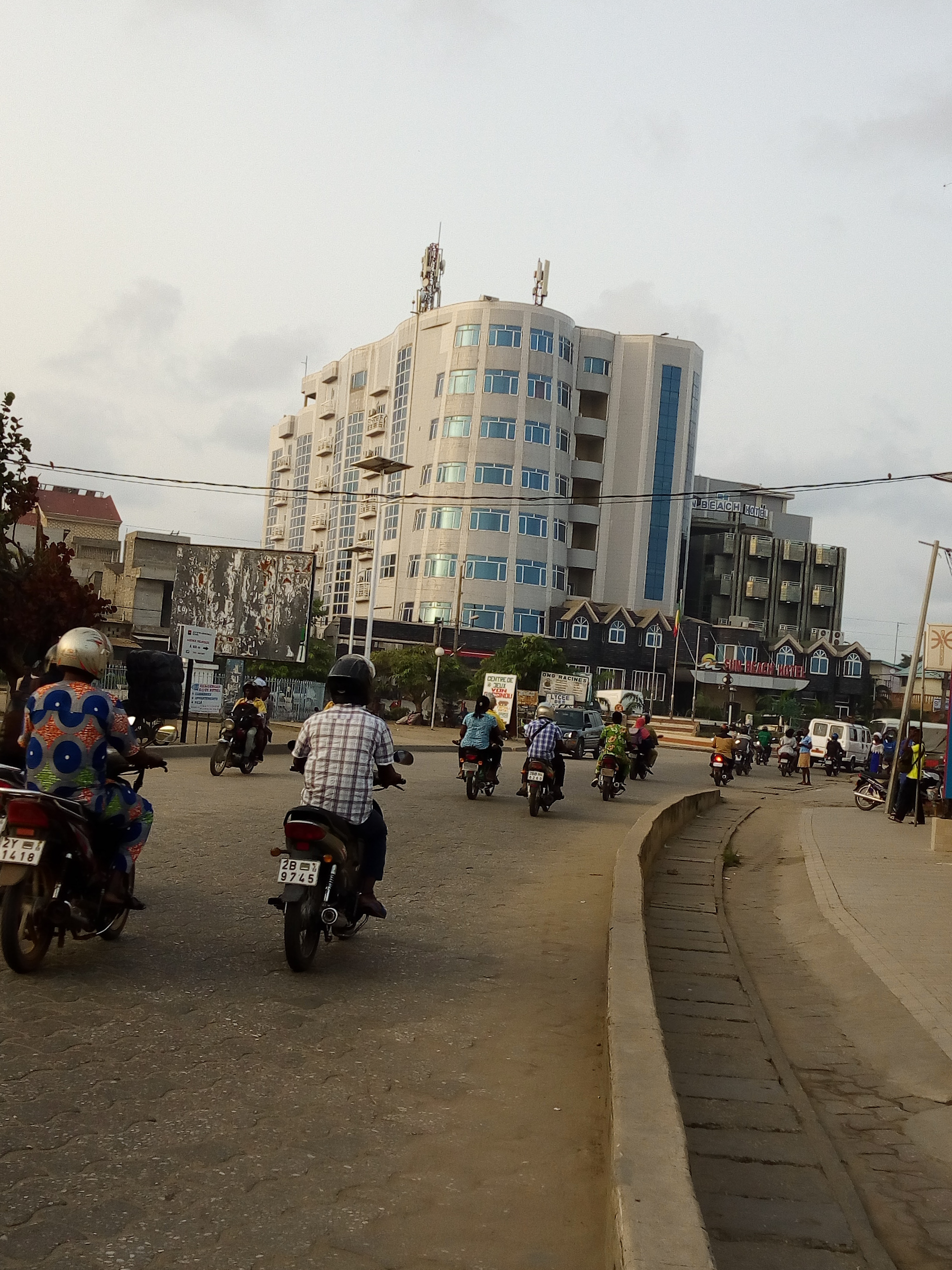 Sun Beach Hotel is a 4-star hotel built in an area called Fidjrossè 5 minutes from Cotonou beach, 10 minutes from Cotonou International Airport, 5 minutes from the "Route des Pêches" and 9 km from Dantokpa Market in the Republic of Benin. It is composed of 130 standard rooms and presidential suites.